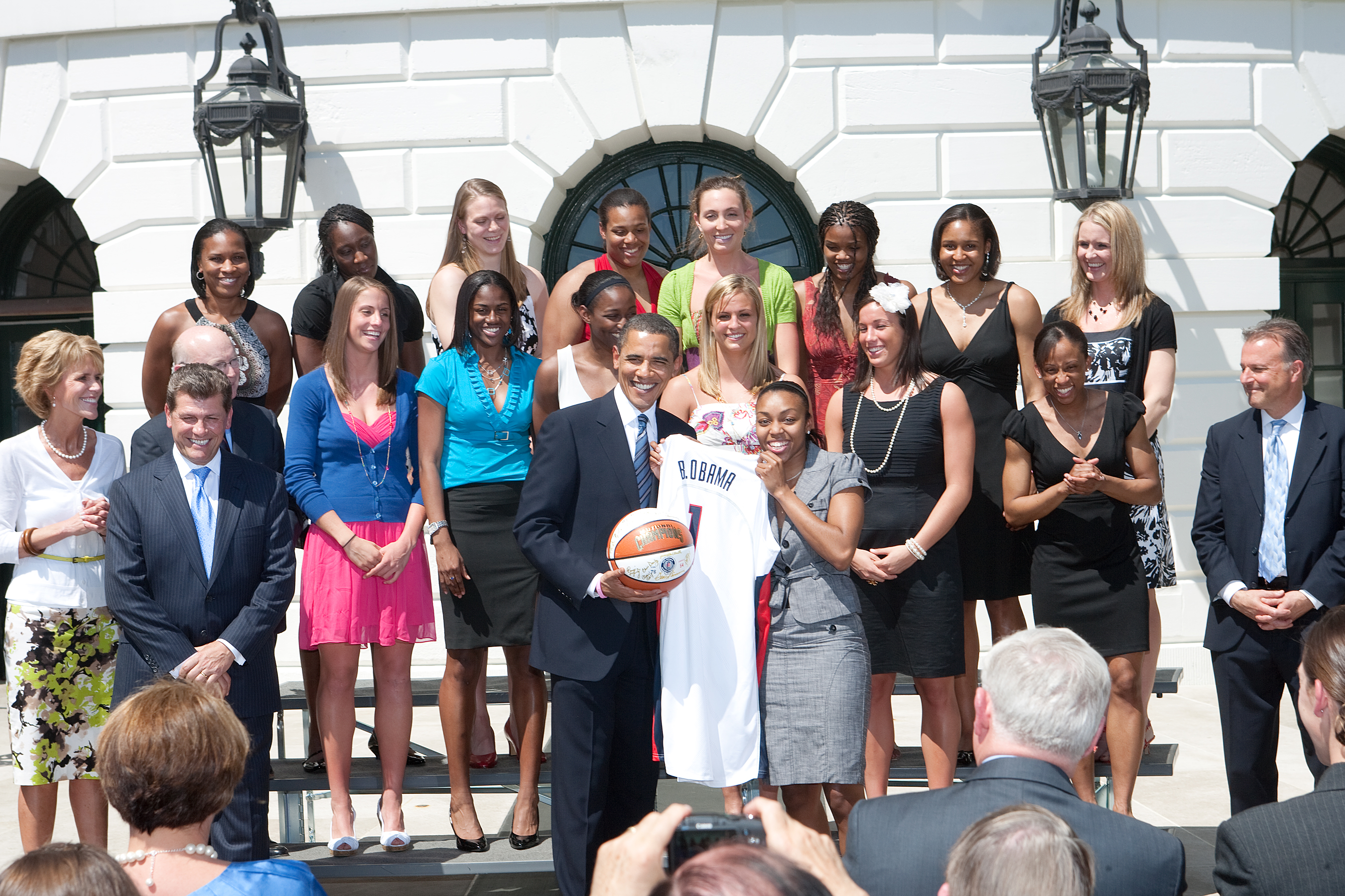 Picture of the UConn 2009 National Championship team with Barack Obama at the White House, taken by the White House photographer, provided by Randy Press (Assistant Director/Athletic Communications (Women's Basketball, Field Hockey))